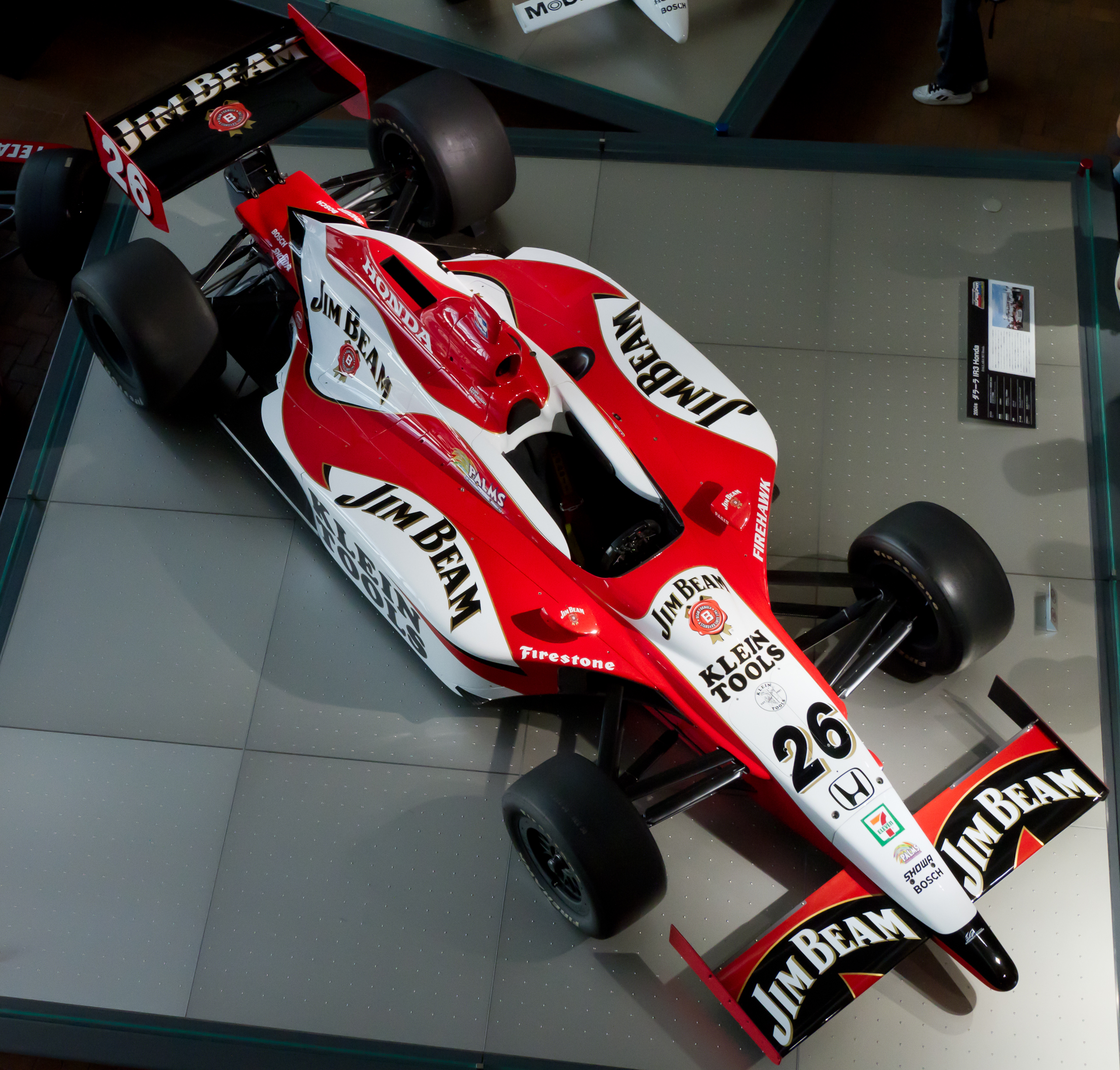 2004 Dallara IR3 (#23 Dan Wheldon, Andretti Green Racing); Wheldon won his first IRL race at Twin Ring Motegi in Japan. This win also meant the first win for Honda-powered car on the oval of the circuit.